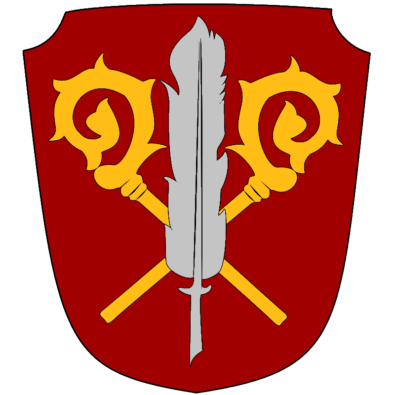 The coat of arms from Benediktbeuern